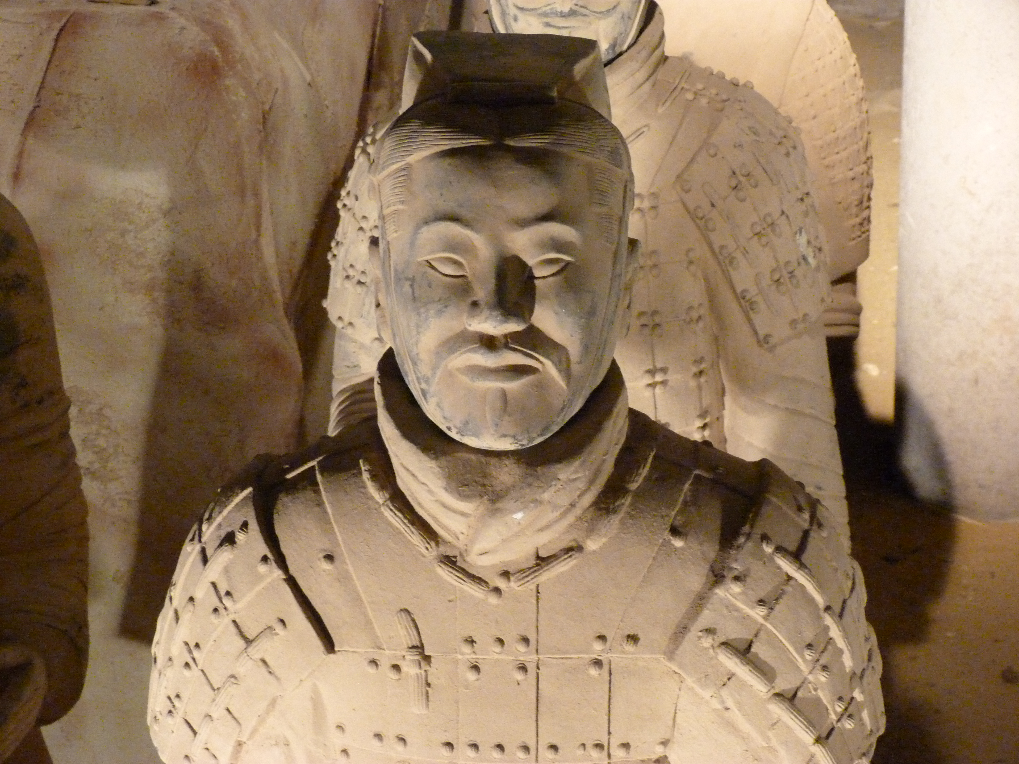 Csin Si Huang Ti’s Colonel-in-Chief (all nations do unite. (Ying Zheng, Jing Cseng, Qin Shi Huangdi, Qin Shi-huang) Csin Si Huang Ti united the territories today called China, he is the first emperor of Csin (China) (260–210 before Christ)